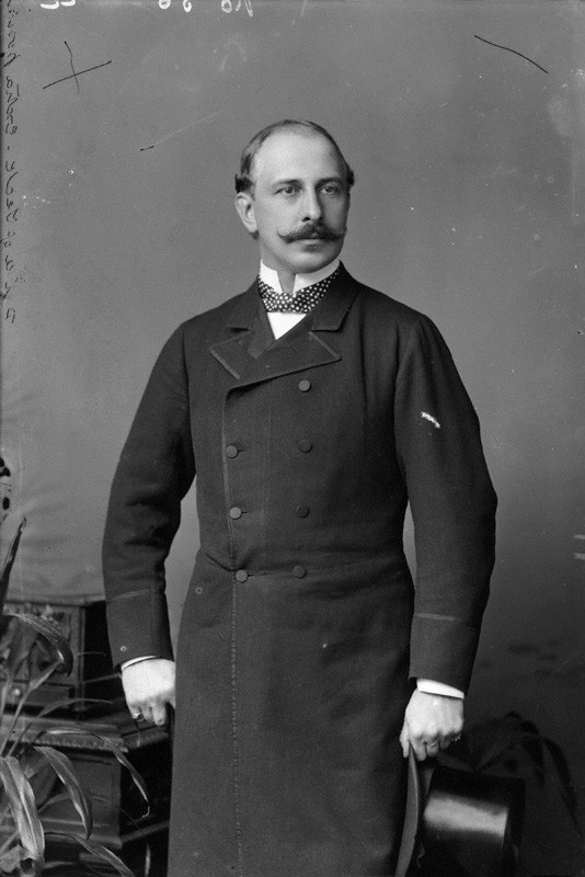 half-plate glass negative